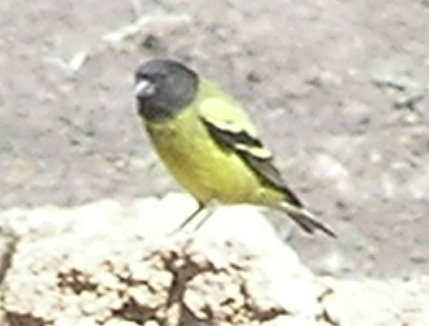 Low quality image of male Ethiopian (black-headed) siskin